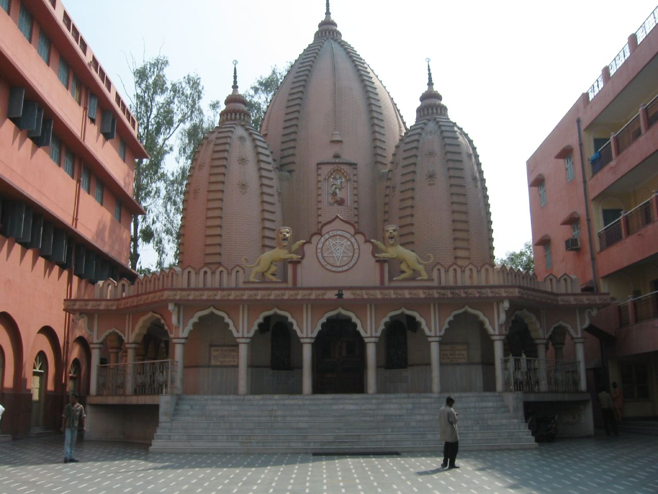 "The beautiful temple, striking temple gate with two huge elephant on both side, guest house, students hostel, computer training center, medical clinic and beautiful flower garden are well maintain and very organized. " -In India, there are over 150 centers, and approximately 650 monks belong to the entire organization. The home of the Bharat Sevashram Sangha is in Calcutta, India. The movement was started in 1917 by Swami Pranavananda.